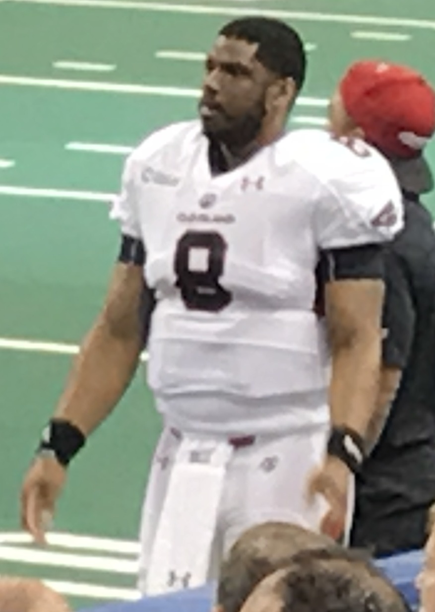 Shane Boyd waiting for a pass